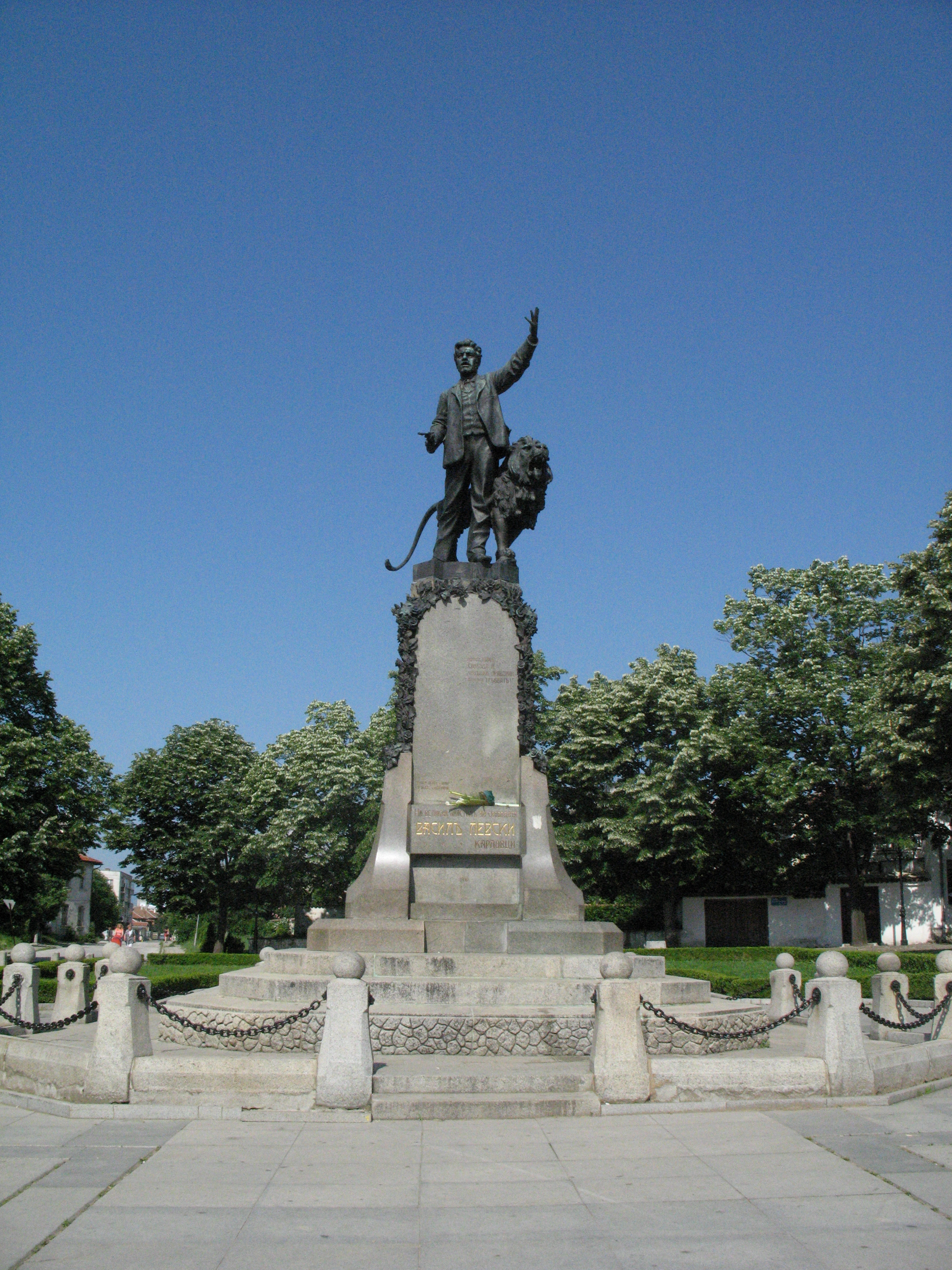 The monument of Vasil Levski in Karlovo, Bulgaria. Sculptor: Marin Vasilev, 1902